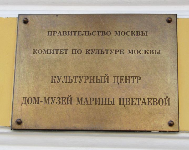 House-Museum of Marina Tsvetaeva. Moscow, Borisoglebsky Lane, 6.